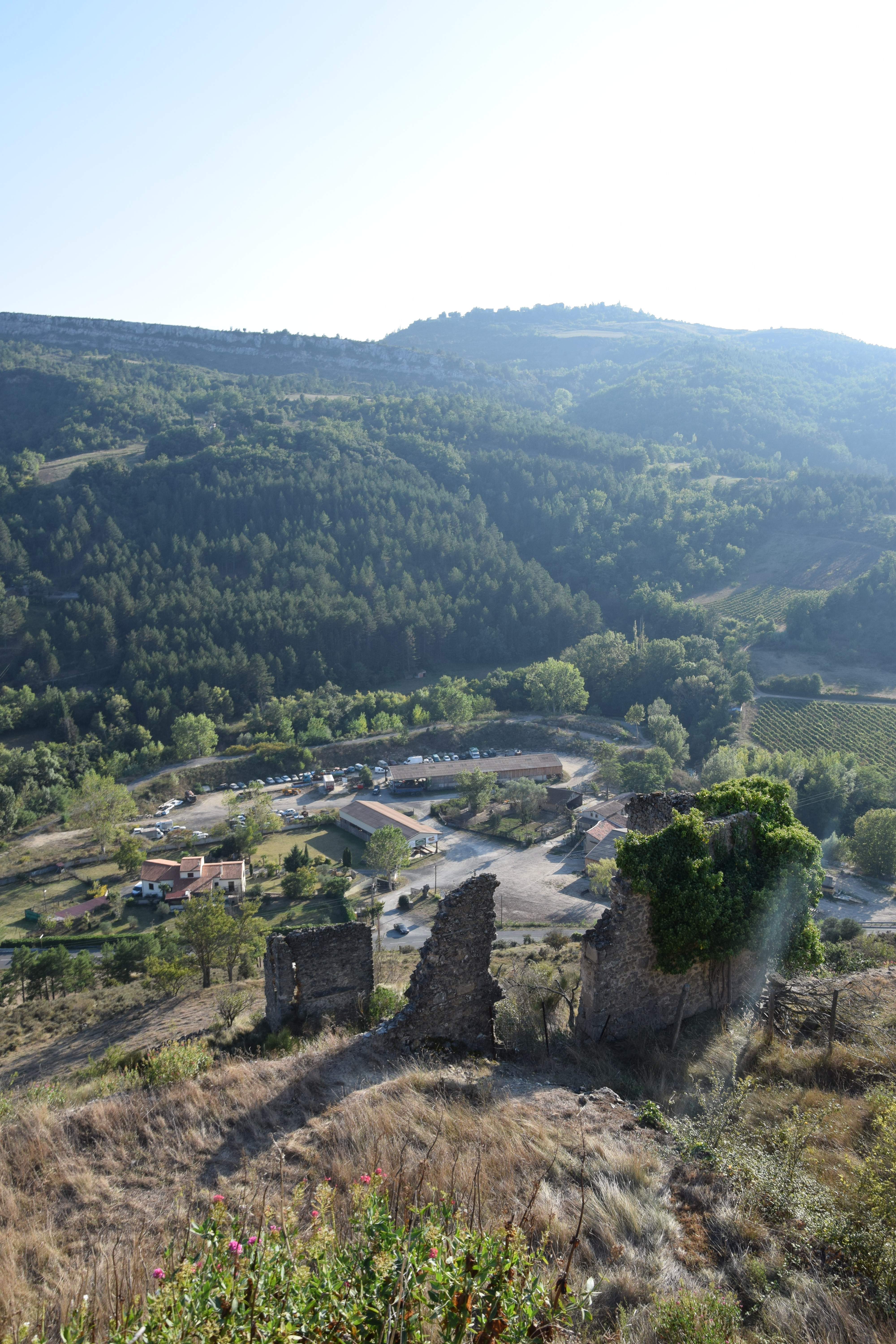 Castle of Coustaussa